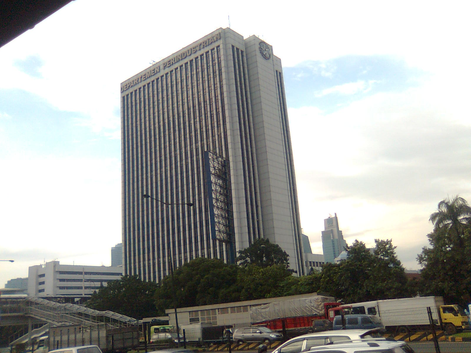 Building of Departemen Perindustrian Indonesia (Industry Department of Indonesia), Jakarta.